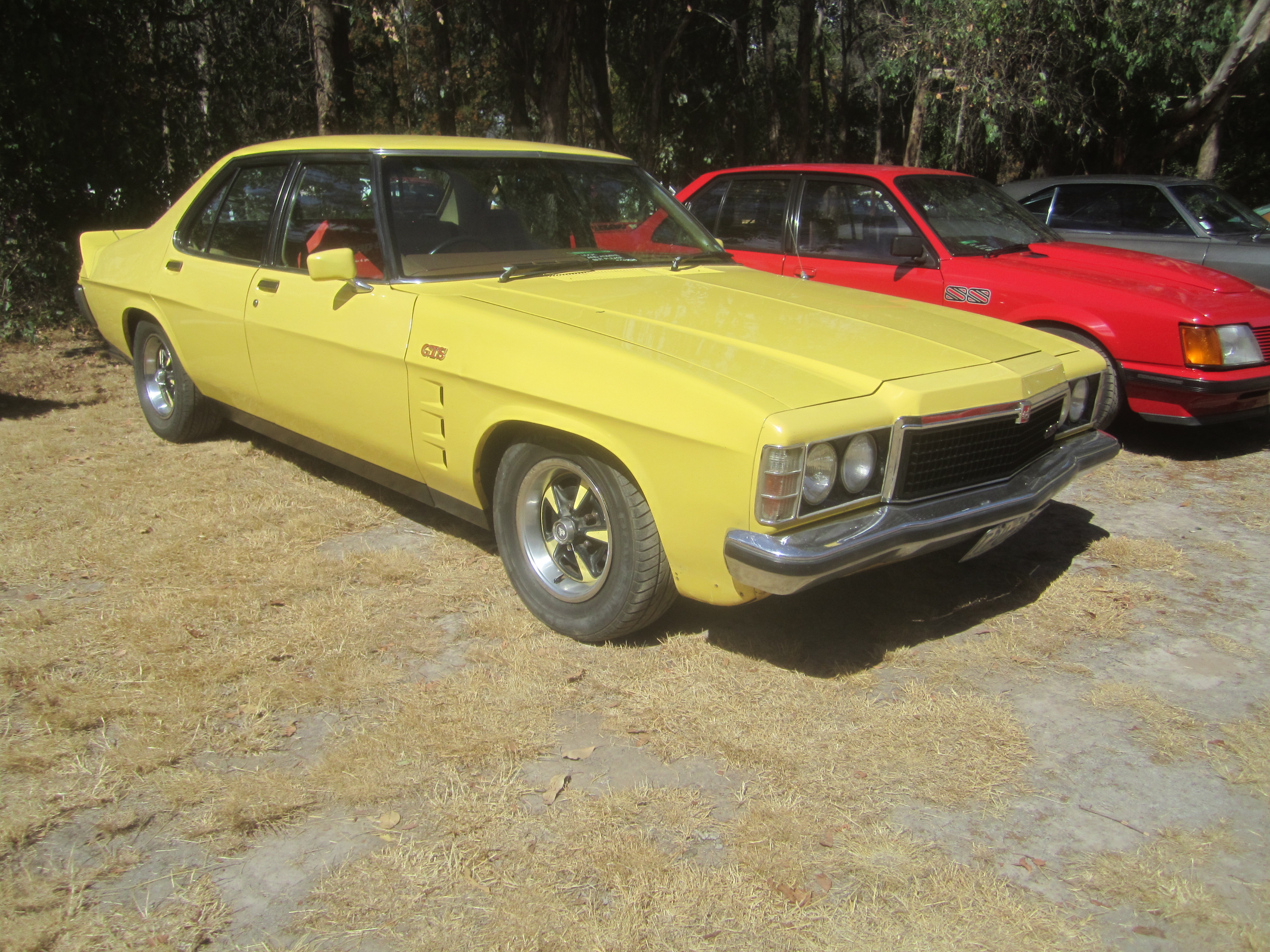 Built from October 1977-April 1980. The last facelift on the old HQ body, the HZ, minor cosmetic updates but got the new Radial Tuned Suspension (RTS). The GTS now only available in 4 door Engines; 253 and 308 V8s